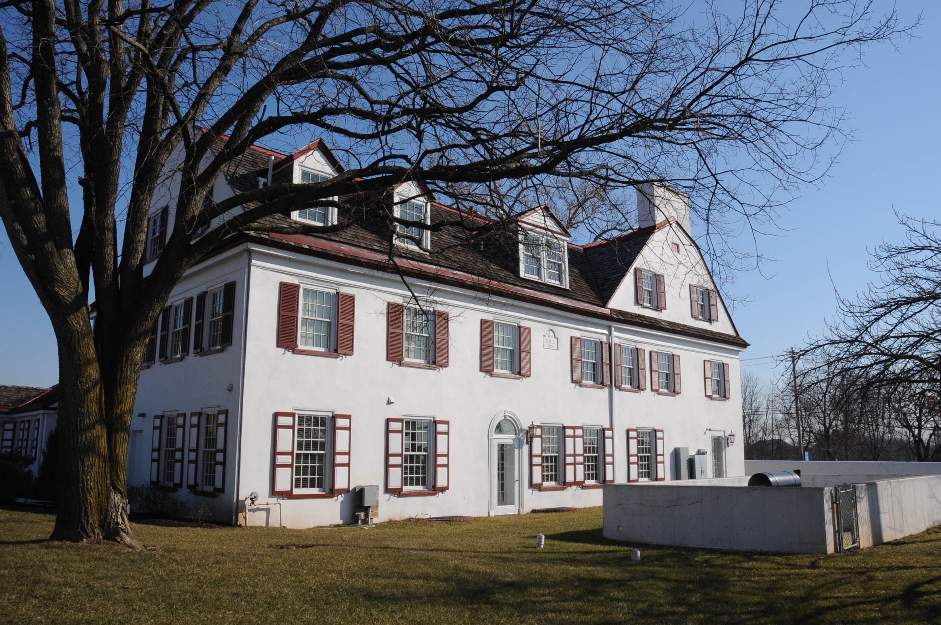 IN 1834 JACOB AND CATHERINE HEIST BUILT A TAVERN ON THE SITE OF LAND GIVEN TO THEM BY HER FATHER, JACOB LEVERING. THE PRESENT MANOR HOUSE IS BELIEVED TO BE INCORPORATED IN THAT EARLY TAVERN. THE PROPERTY PASSED TO WILLIAM SINGERLY WHO BUILT THE IMMENSE BARN AND THE FARM BECAME KNOWN AS THE “RECORD FARM” BECAUSE MR. SINGERLY OWNED THE PHILADELPHIA RECORD. IN 1913 RALPH STRASSBURGER BOUGHT THE FARM AND RENAMED IT NORMANDY BECAUSE HE HAD HONEYMOONED IN NORMANDY WITH HIS BRIDE, THE DAUGHTER OF THE PRESIDENT OF SINGER SEWING MACHINE. HE CONTINUED USING IT AS A FARM AND HIS HEIRS MAINTAINED IT UNTIL 1993 WHEN IT WAS SOLD TO THE VESTERA CORPORATION. IT NOW HOUSES A HOTEL AND SEVERAL RESTAURANTS PLUS A RETIREMENT COMMUNITY